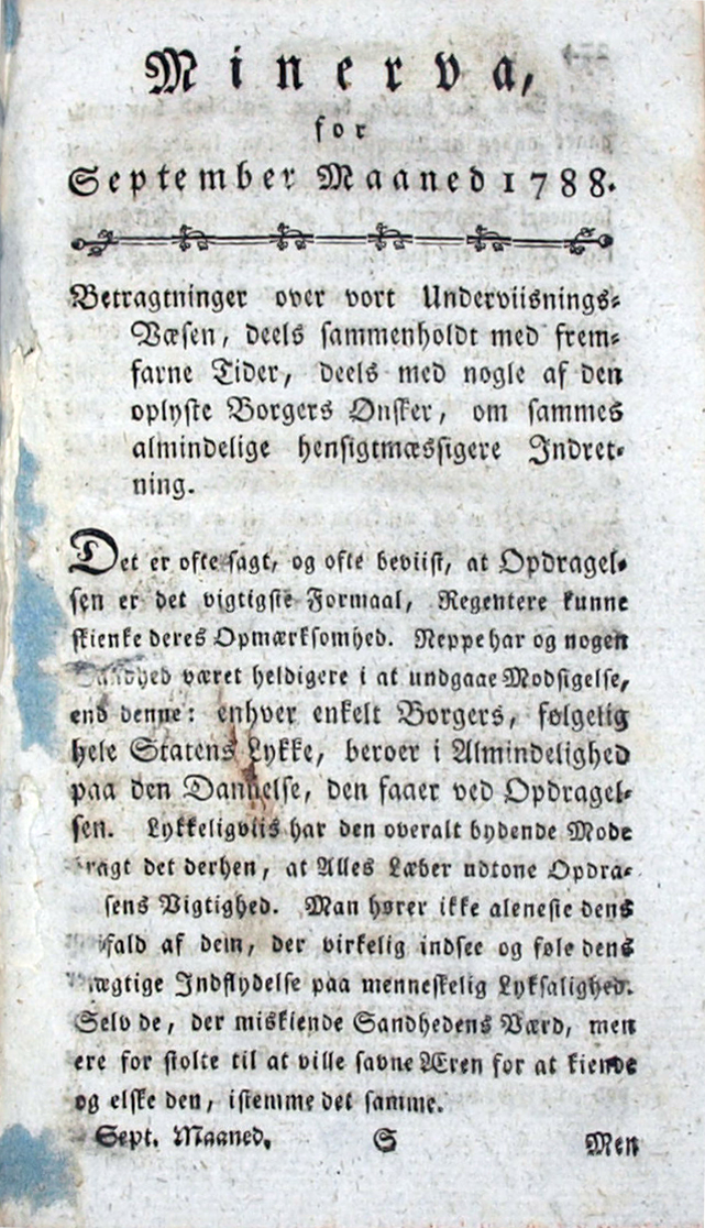 Title page of an issue of the Danish periodical "Minerva" from 1788. Published by Christen Henriksen Pram and Knud Lyne Rahbek.